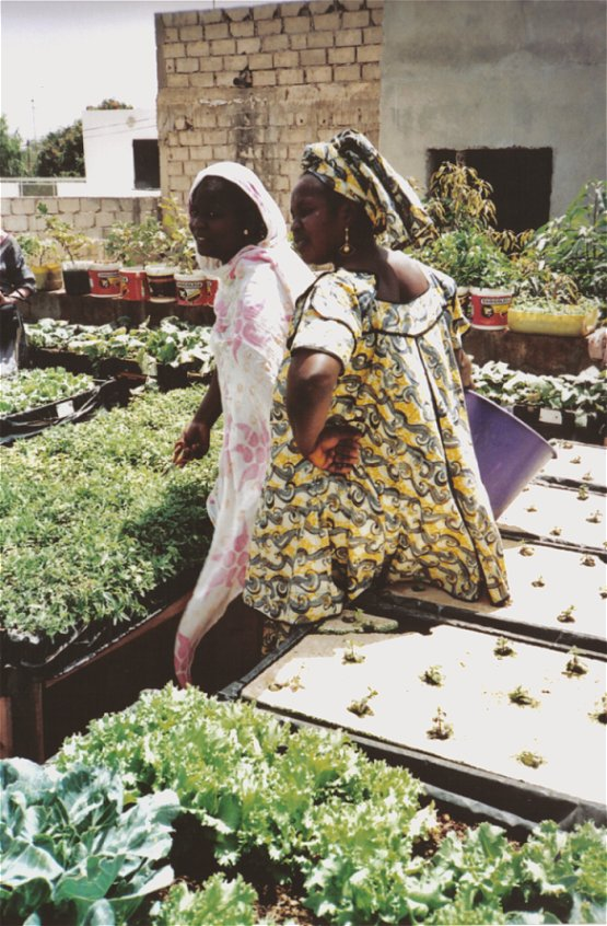 Micro-jardins à Thiès, Sénégal; "One of the activities that Pap and I helped out with/observed was their mini garden (I call it roof top garden). As you can see the garden is full of green, this is probably the most green that you will see fo miles. Their main plant is mint. They have about 5 or 6 different varieties of mint. They plant them in soil but also use hydro planting (styrofoam plates floating in water, pictured on the right). Other vegetables are lettuce, cabbage, zuccini, eggplant, green pepper, beans, hot pepper, cucombers".